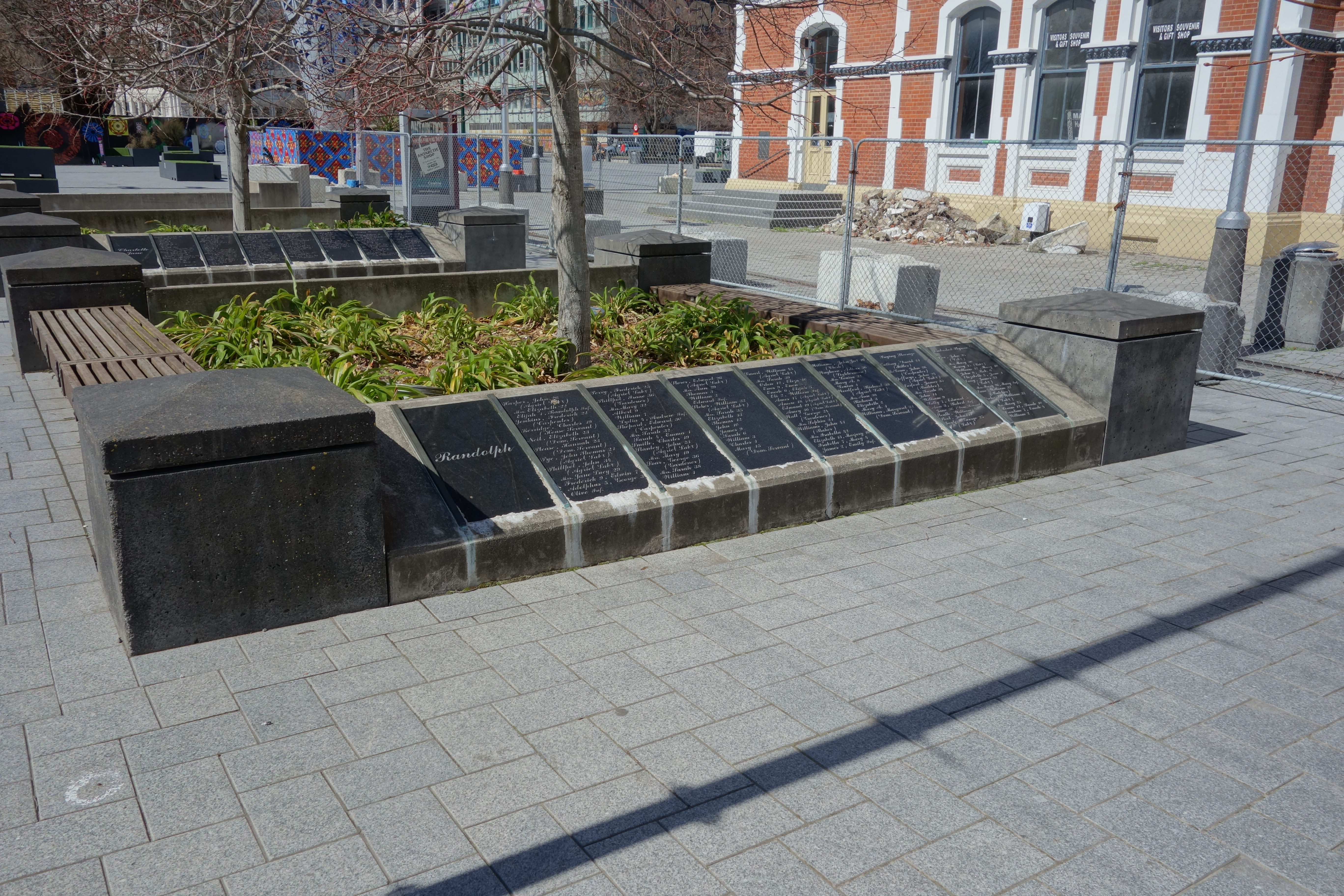 Christchurch in September 2015 - Randolph memorial.